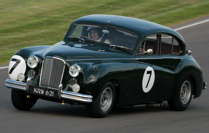 Rowan Atkinson ( Mr.Bean ) trying hard in a huge Jaguar Goodwood Revival 2009